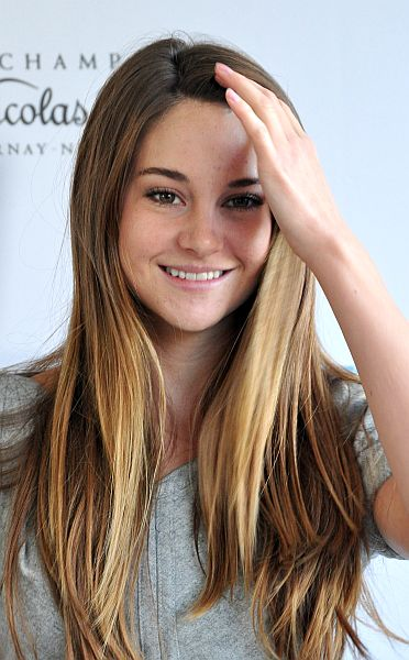 Actress Shailene Woodley attends the 19th Annual Hamptons International Film Festival Chariman's Reception on October 15, 2011 at the home of Stuart Suna in East Hampton, New York. (Photo © Nick Stepowyj)